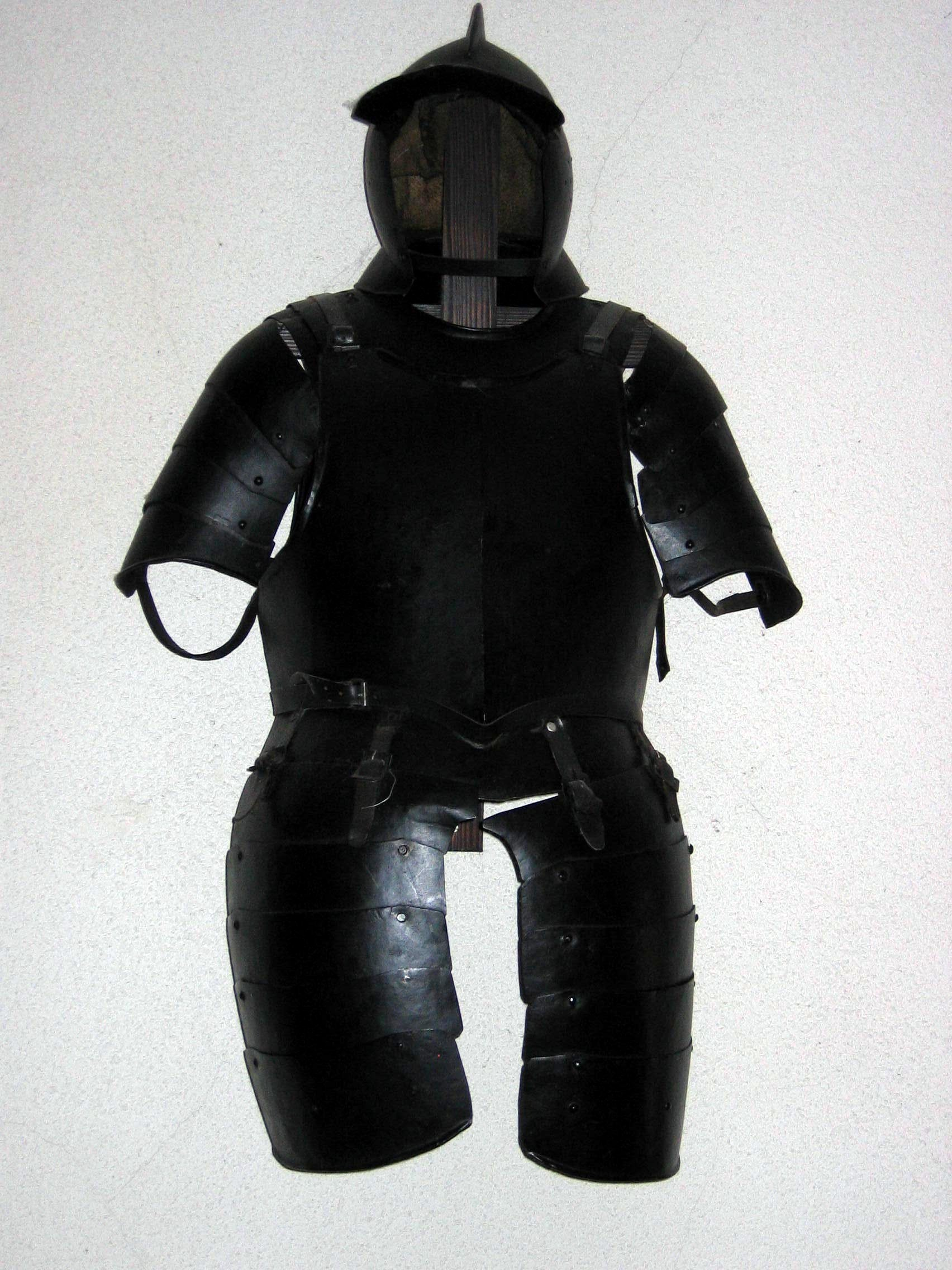 Suit of armor from the collection at Schloss Sigmaringen in Baden-Württemberg